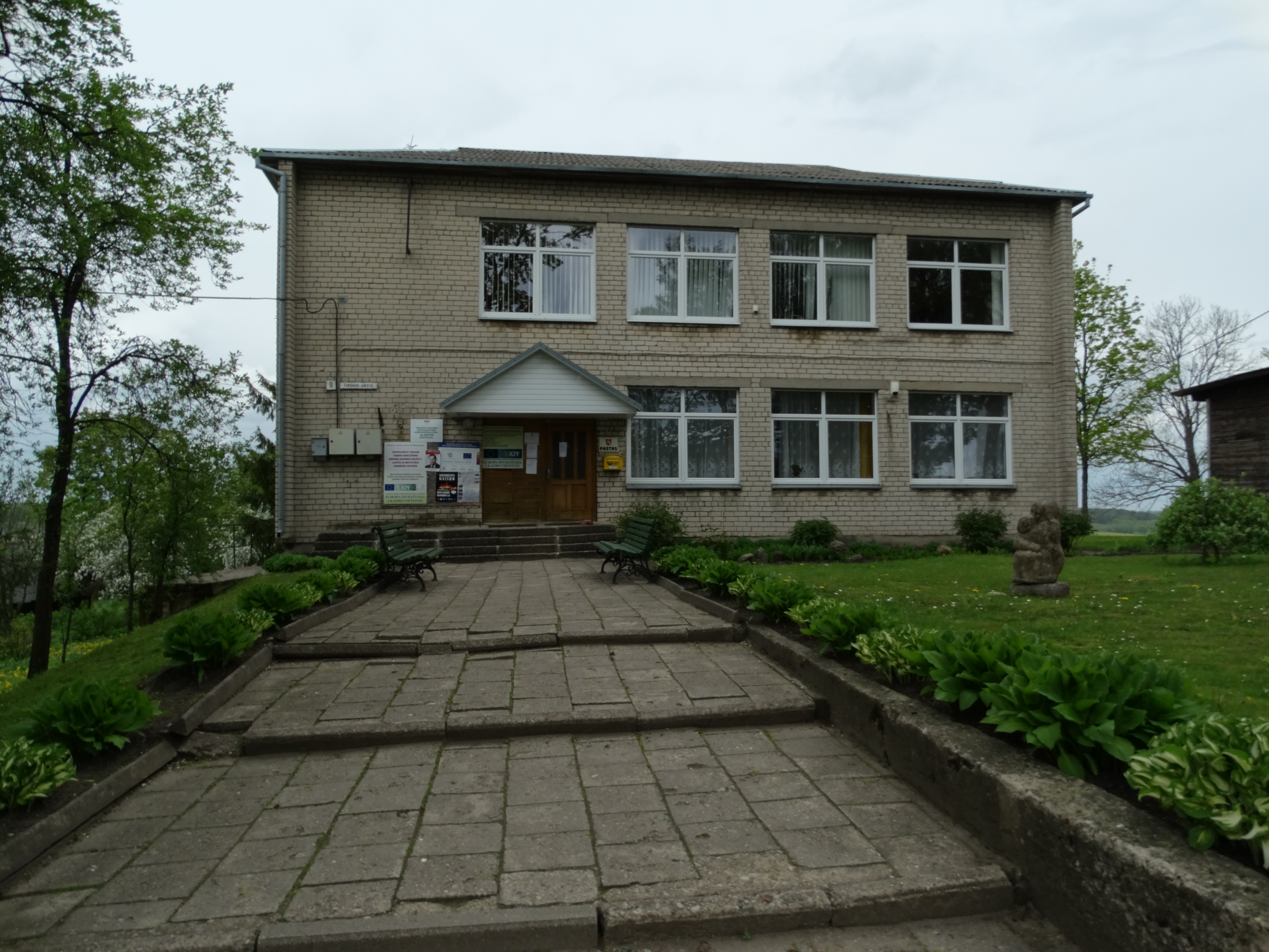 Eldership, Alanta, Molėtai district, Lithuania